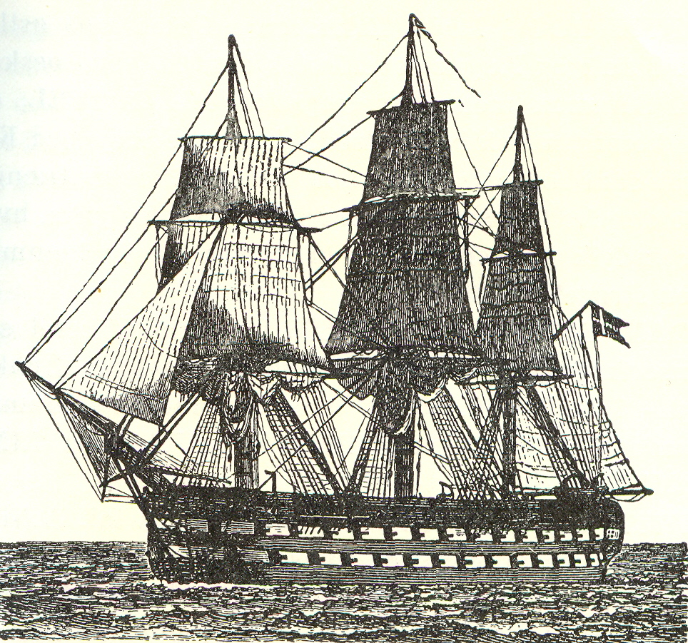 Danish Ship of the line Dannebrog, launched in 1850, and later rebuilt as an ironclad